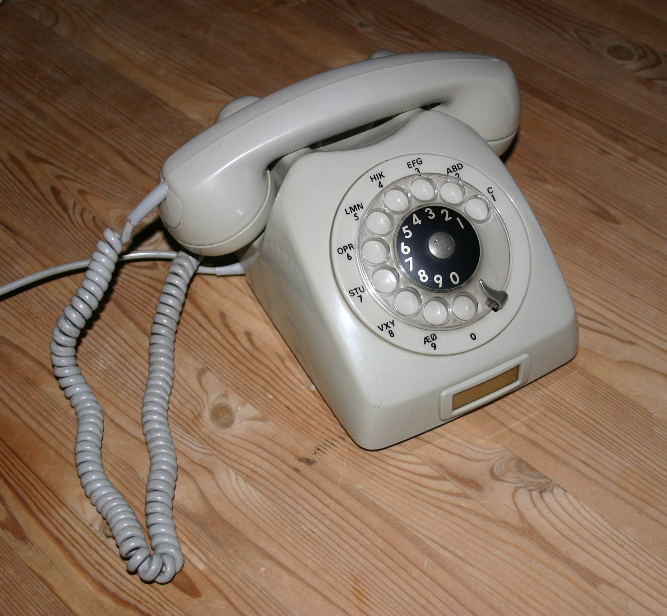 Danish Kirk F68 telephone